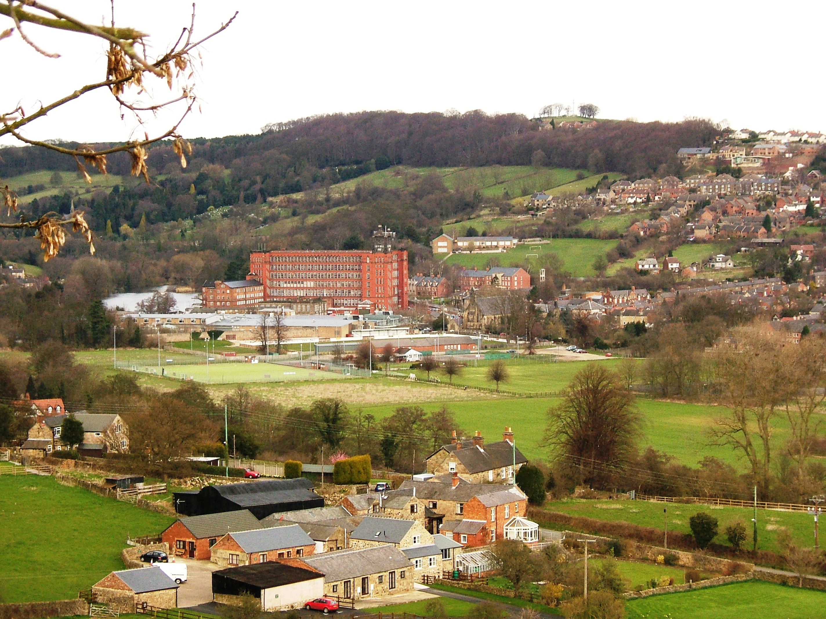 A view of Belper: Belpers East mill built 1912 in Belper, Derbyshire, England